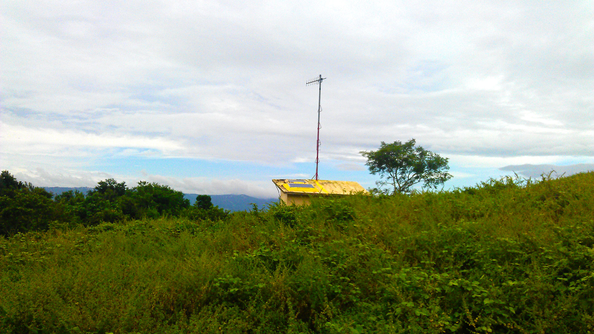 A solar-powered remote monitoring station located at Taal Volcano island. It sends data to its base station at the Taal Volcano Observatory at Talisay, Batangas 6.7 kilometers away at 358 degrees bearing.